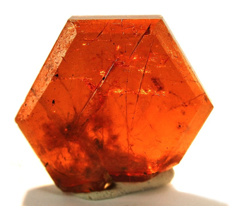 Bastnäsite-(Ce) Locality: Zagi Mountain (Zegi Mountain), Mulla Ghori, Khyber Agency, Federally Administered Tribal Areas (FATA), Pakistan (Locality at ) Size: 1.5 x 1.5 x 0.3 cm. This fine crystal is complete all around, glassy, gemmy, and has great color to it. Ex. Bill Larson collection.